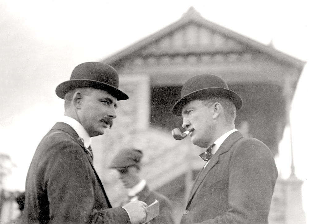 An informal image by a professional photographer of two men wearing bowler hats, with a grandstand in the background. One wears a bow tie and is smoking a pipe. The other man (left) is W.G.T. (William, later Sir William) Goodman, general manager and chief engineer of the Municipal Tramways Trust (of Adelaide, South Australia). A thin leather strap, of the type associated with binoculars, is over his shoulder. A young man in a cloth flat cap is in the background.